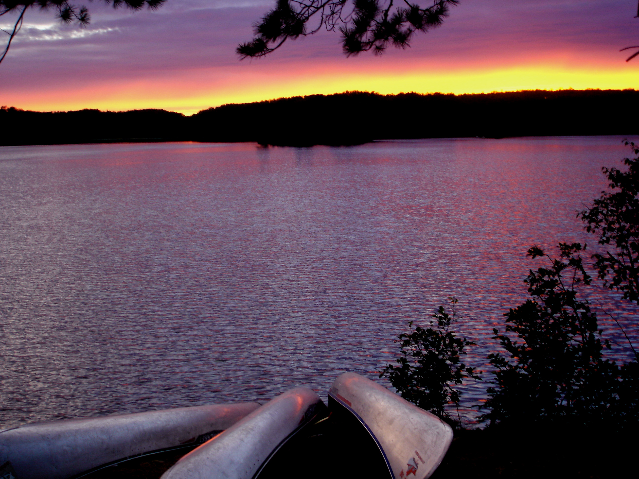 A picture of canoes and sunset in (unknown lake), Quetico Provincial Park.